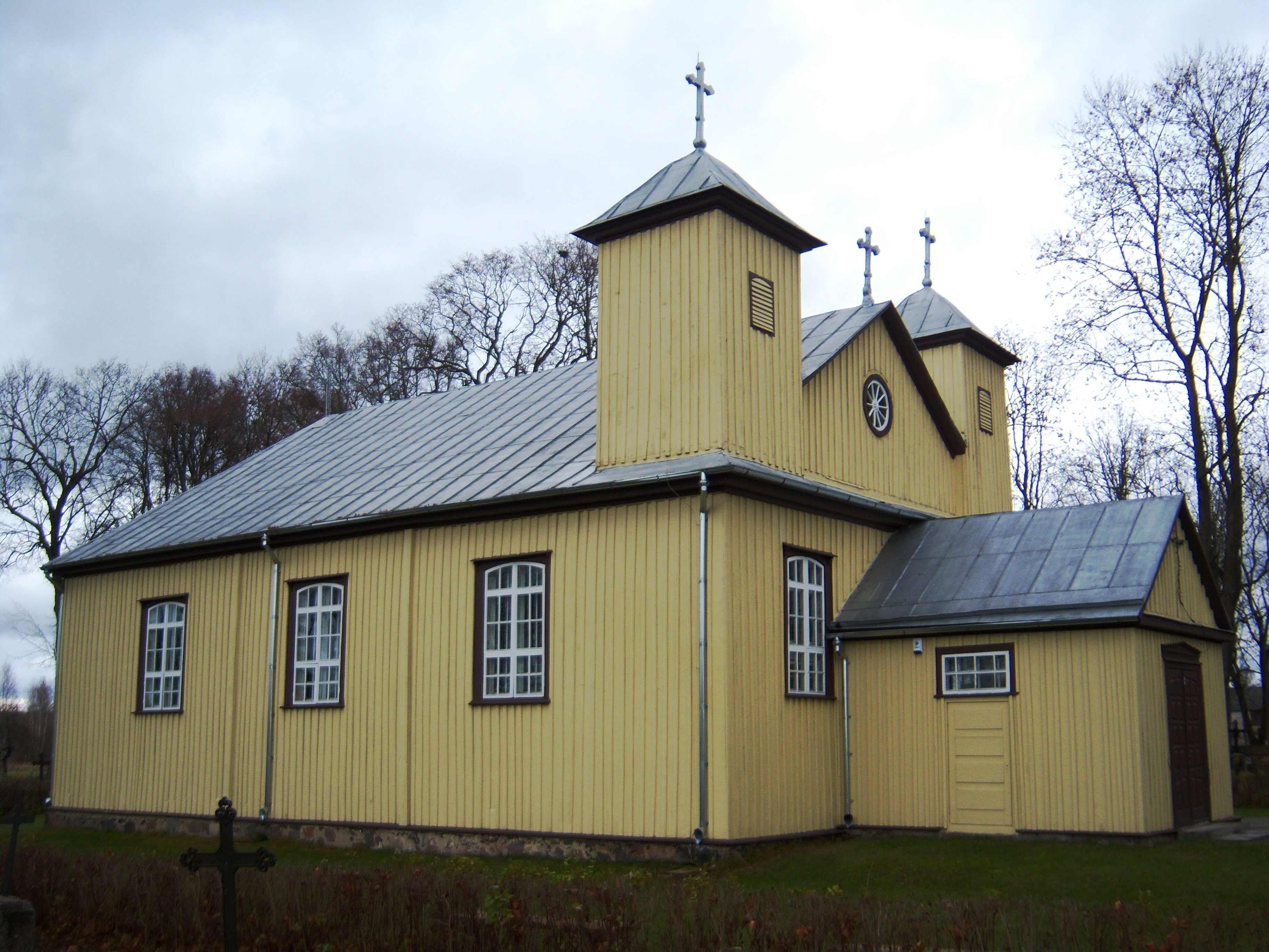 Roman Catholic Church in Antašava, Kupiškis District, Lithuania